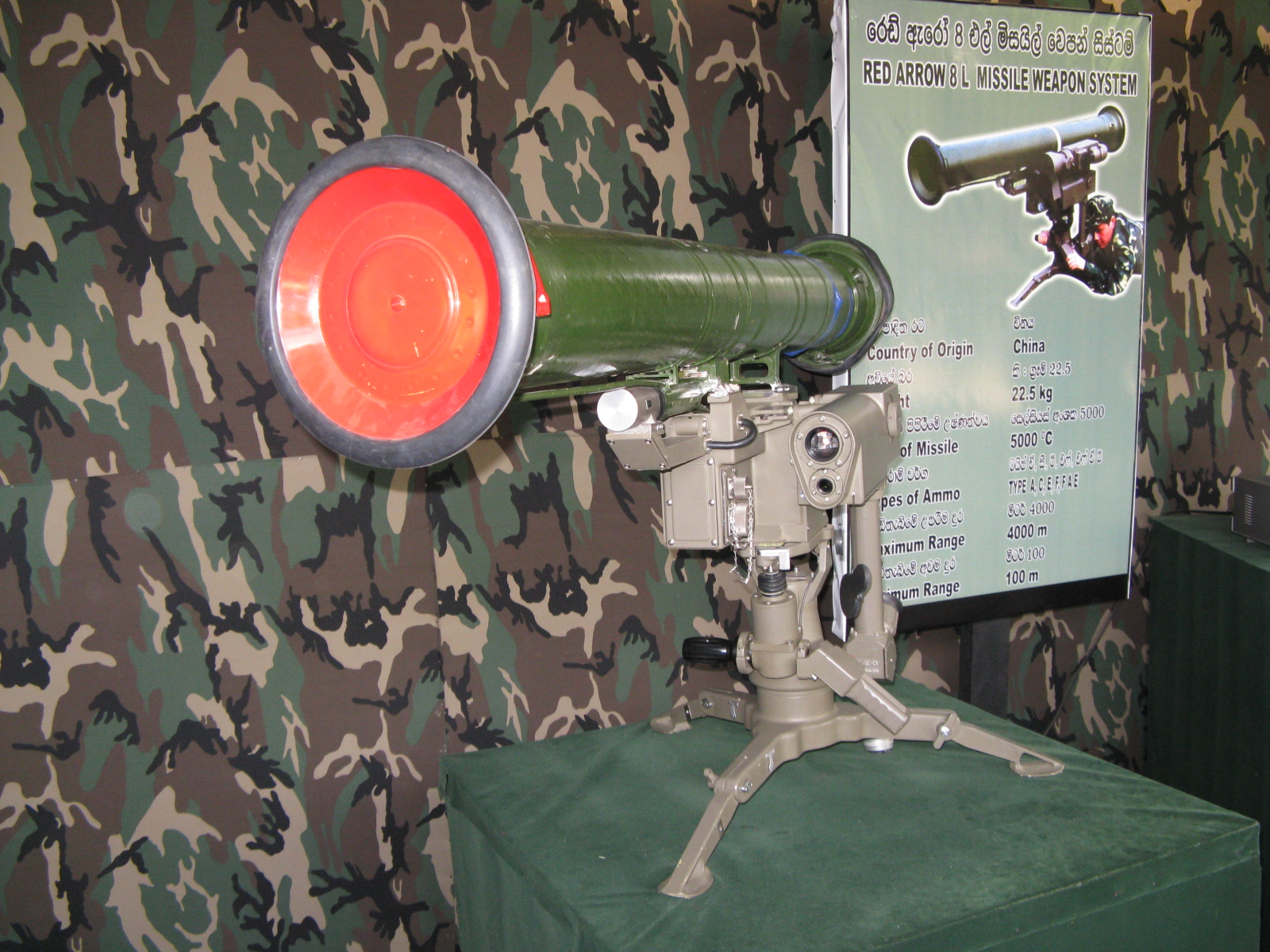 HJ-8L (Red Arrow) Wire-Guided Missile - Sri Lanka Army